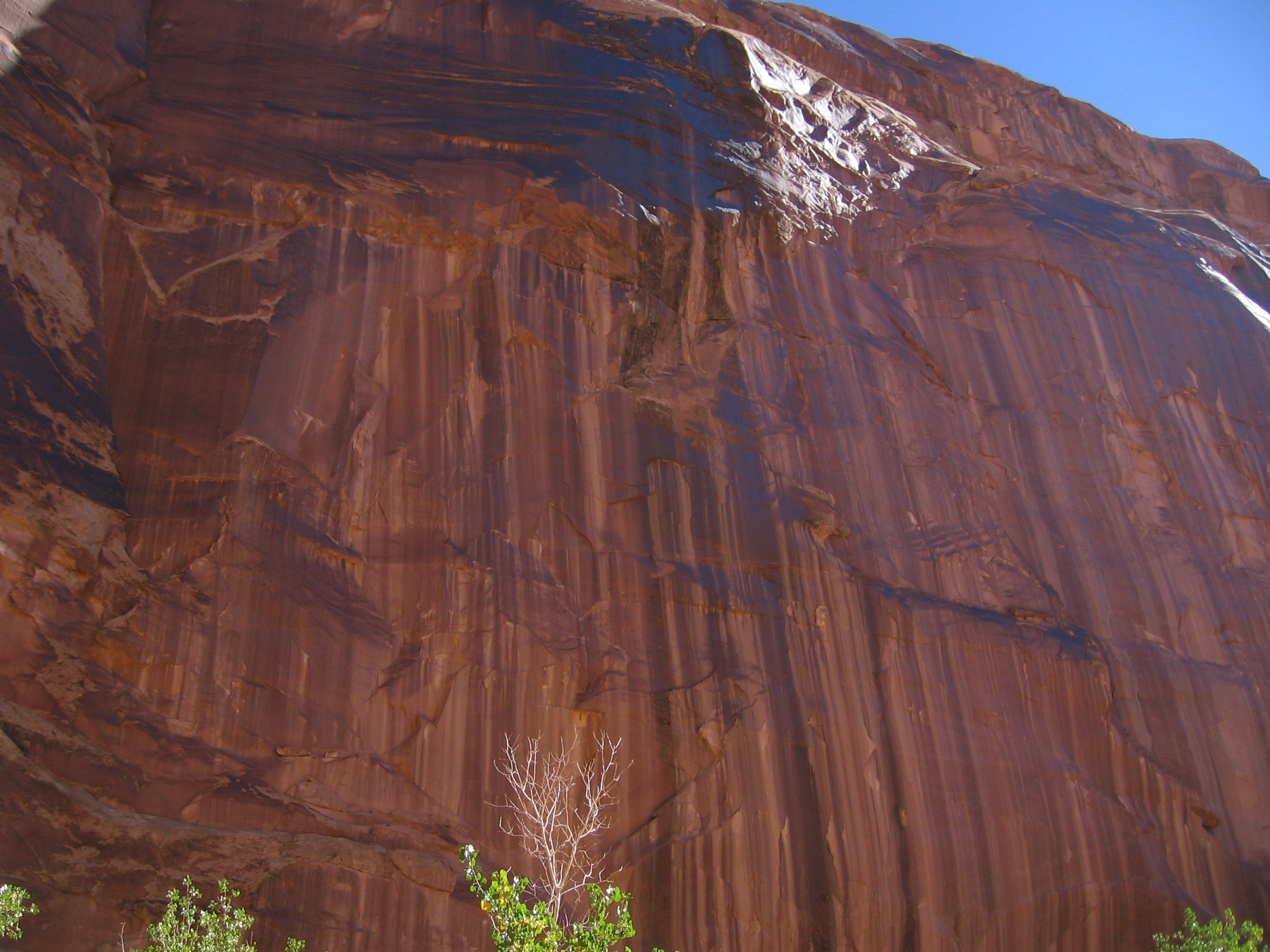 Desert varnish in Horseshoe Canyon, Canyonlands National Park, Utah.